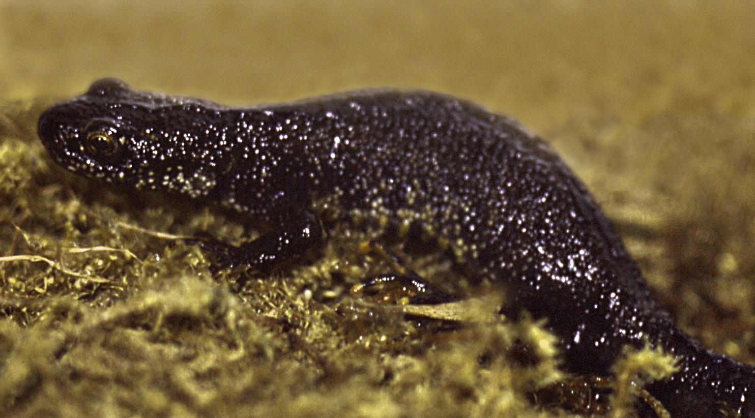 The Crested Newt (Triturus cristatus); male specimen.